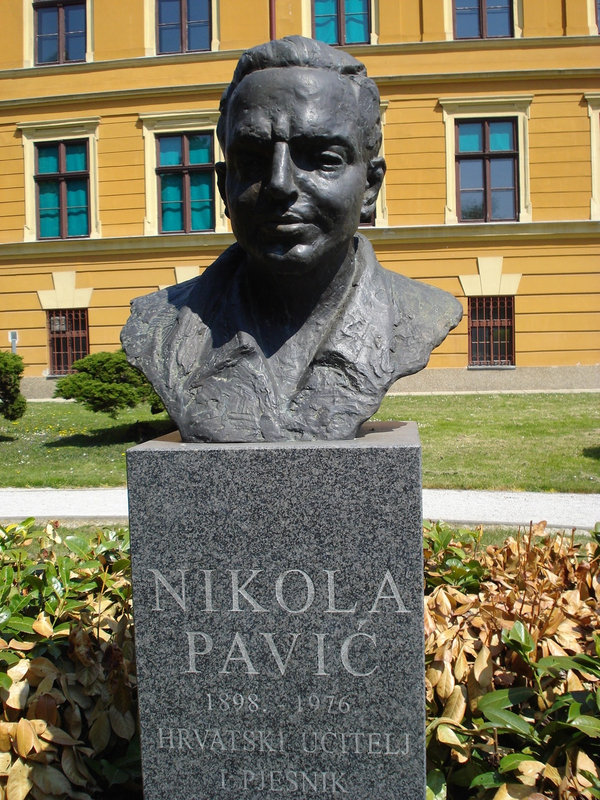 Nikola Pavić, Croatian poet and educator (1898-1976) - bust in Čakovec